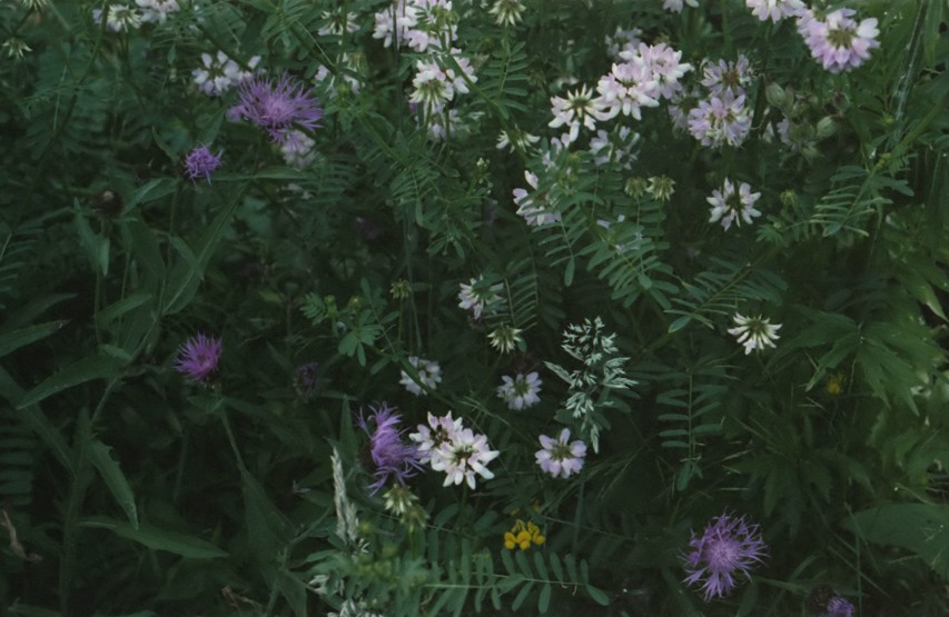 Ossenbeemd flowers at sunset in ecological garden OSSENBEEMD Deurne Netherlands 0506